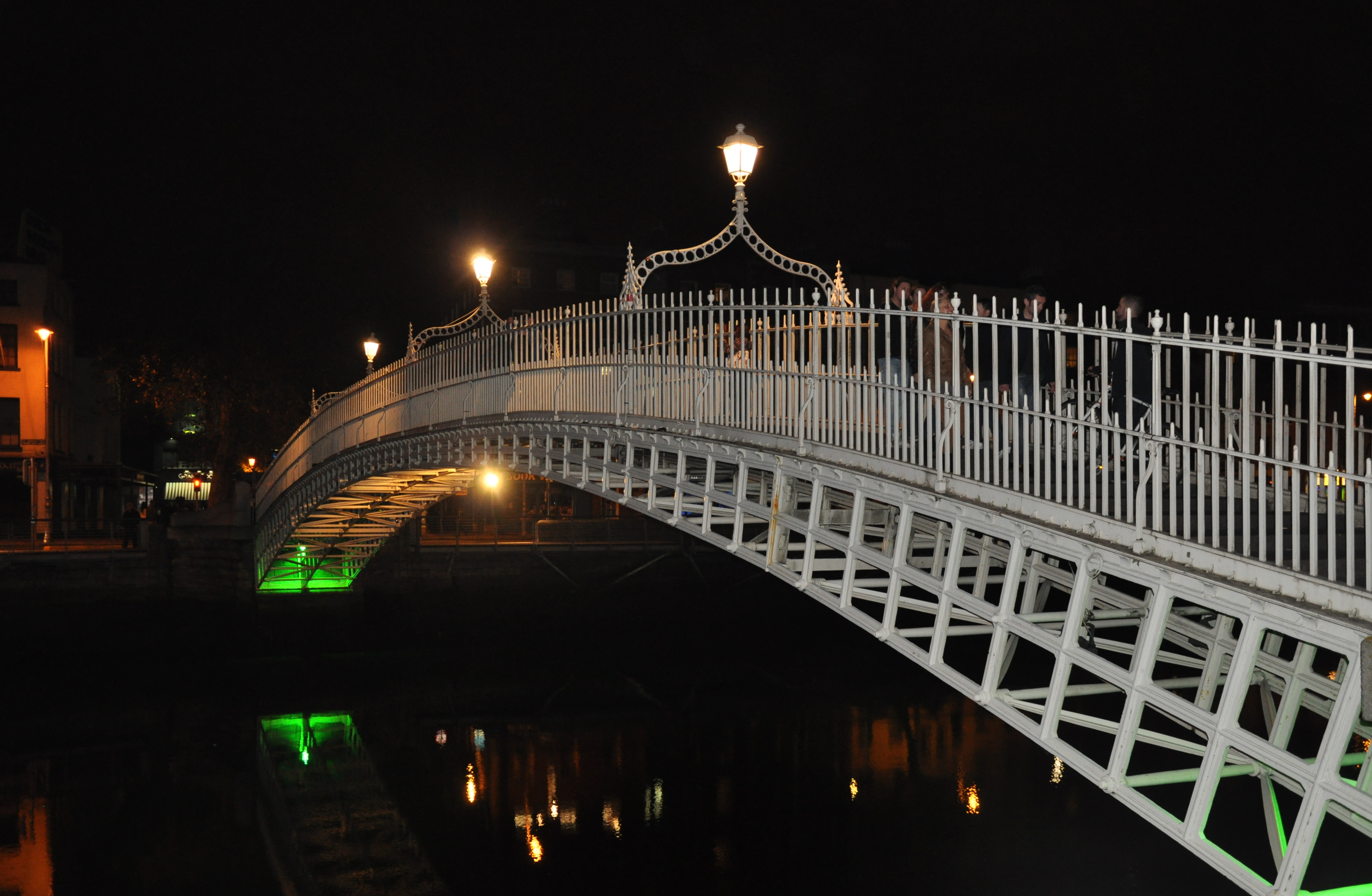 The Ha'penny Bridge in Dublin, photographed at night.